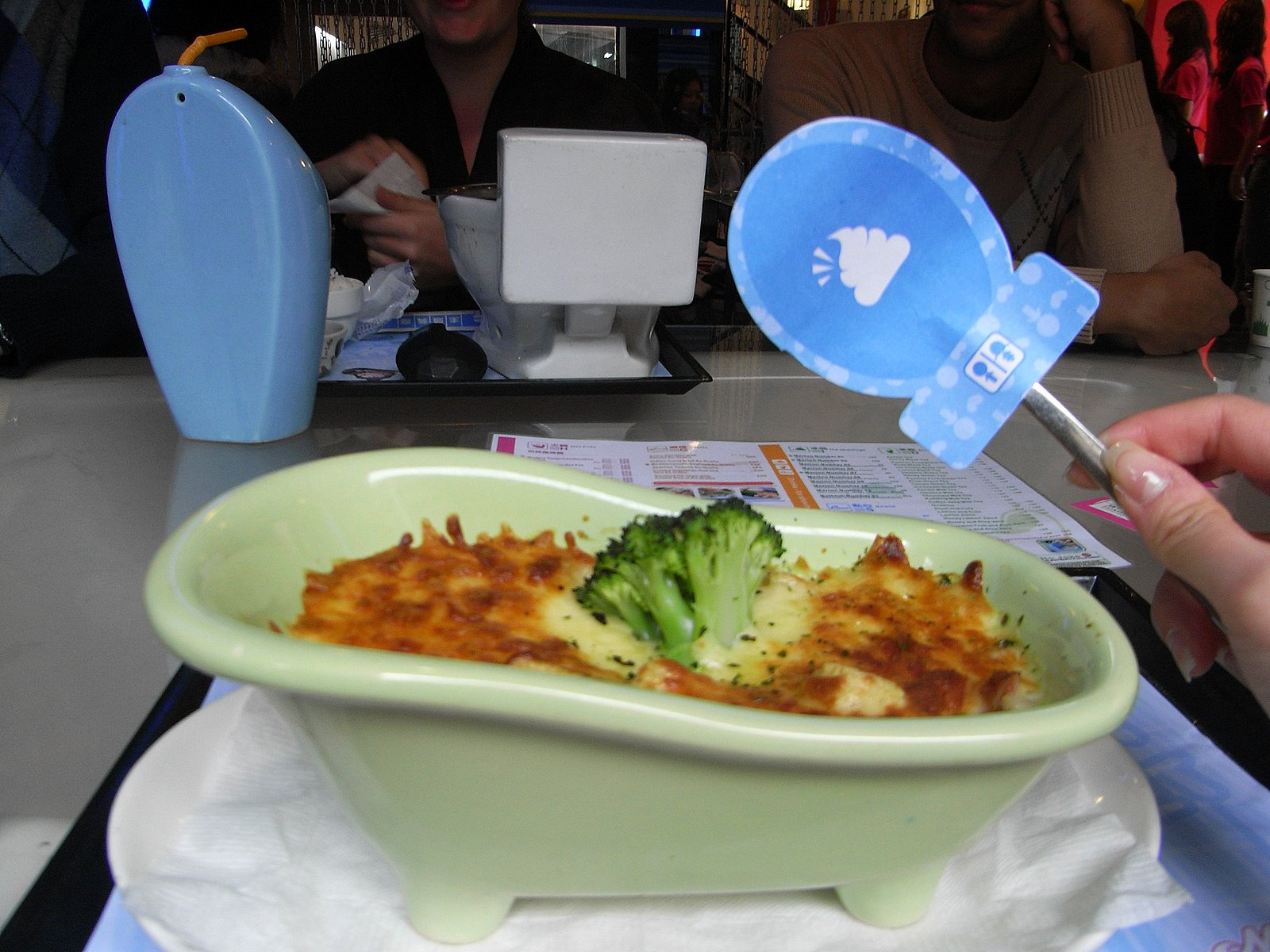 Bathtub gratin dish in Modern Toilet, Ximending, Taiwan. Urinal beverage holder and toilet hot pot visible in background.